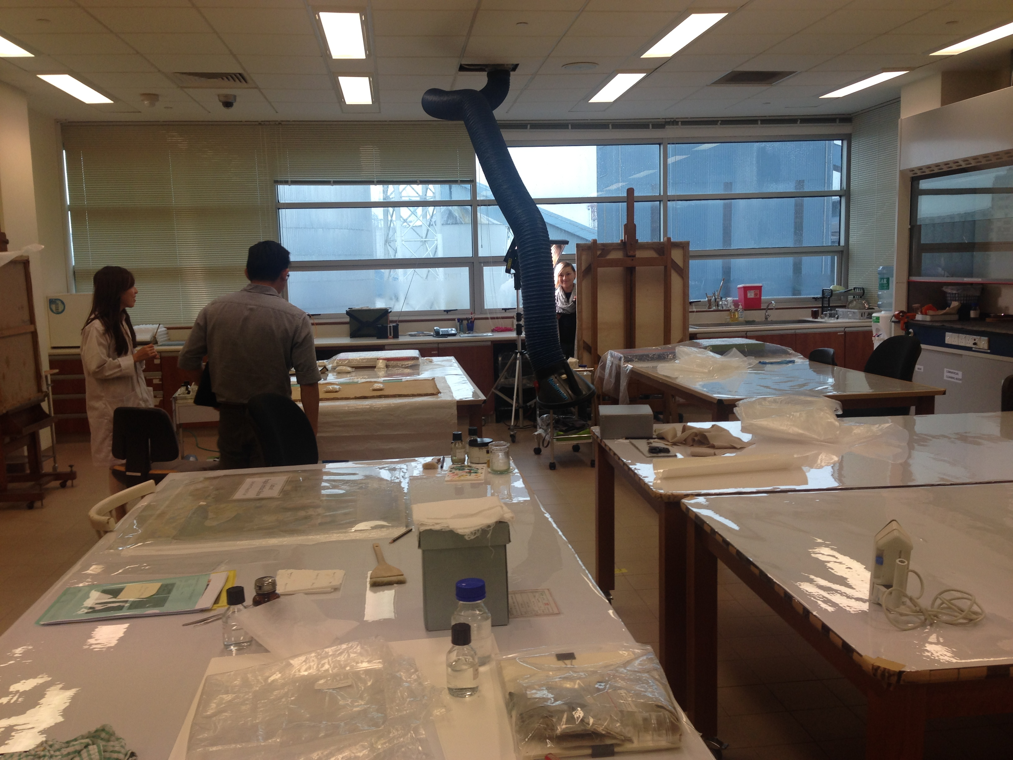 The paintings conservation laboratory of the Heritage Conservation Centre, National Heritage Board, Singapore.